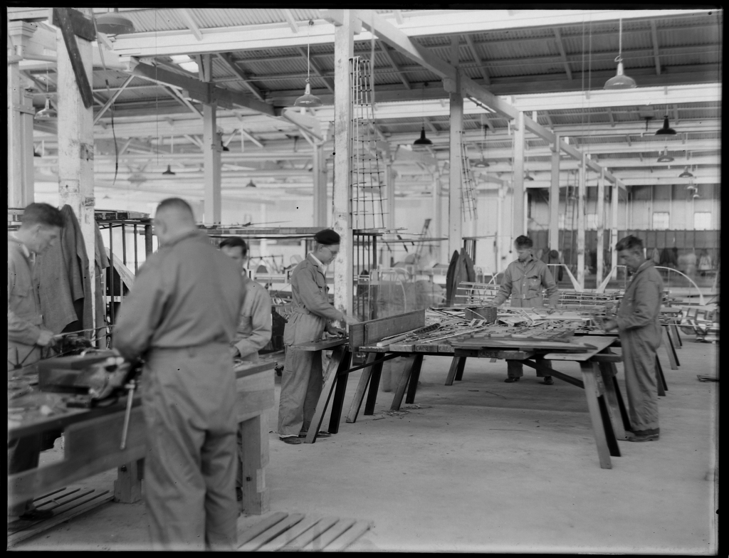 a collection of historical pictures in the Public Domain from the Powerhouse Museum.